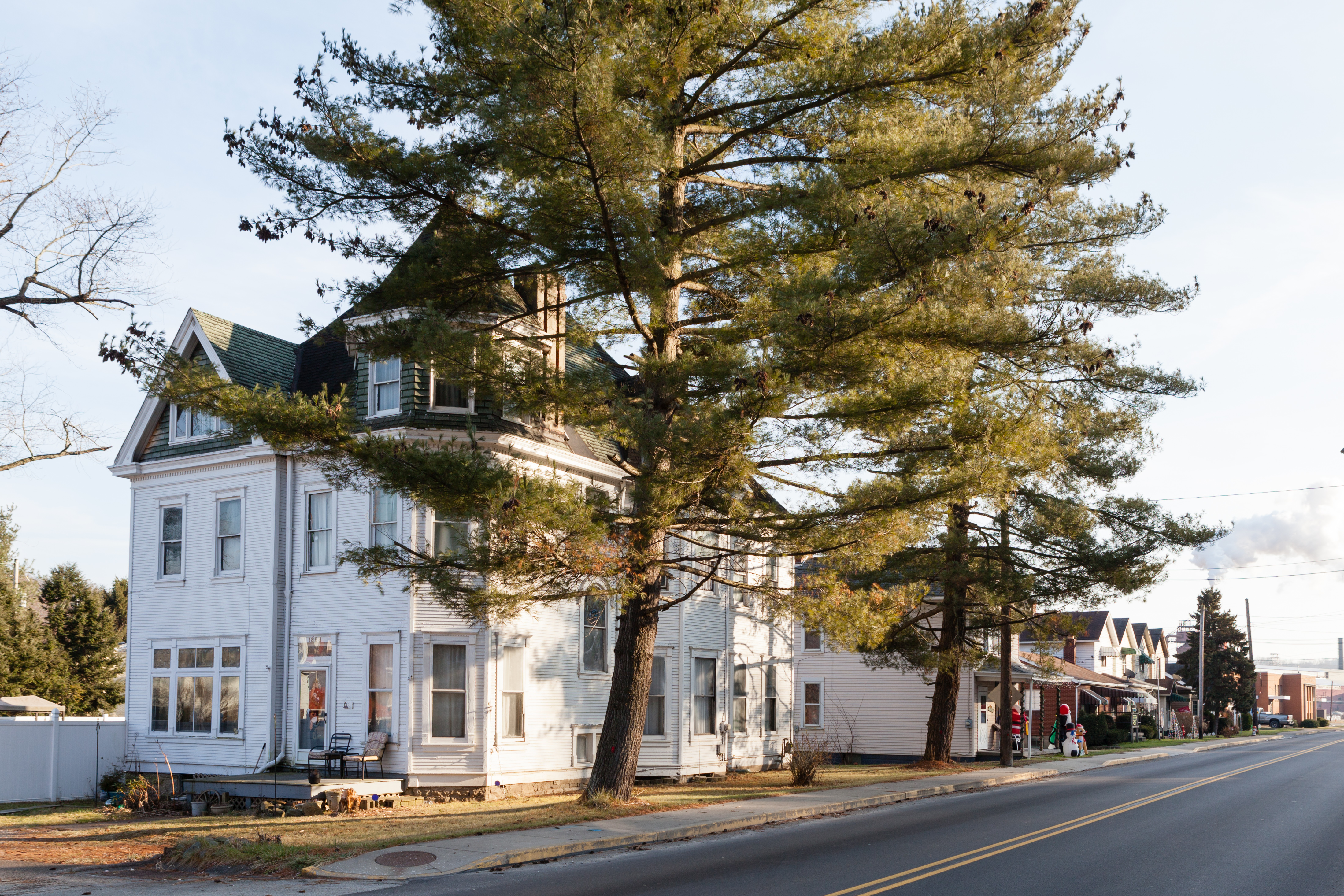 Intersection of Main St and Bridge St in Allenport, Washington County, Pennsylvania, looking south.